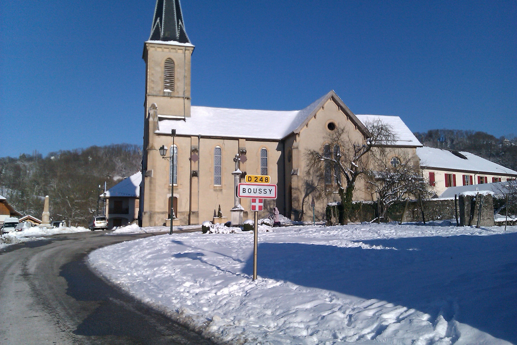 Church of Boussy (Haute-Savoie, France).